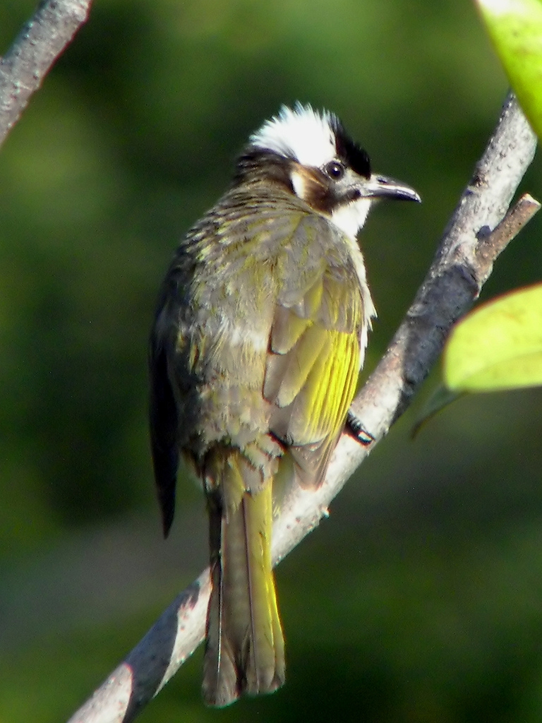 Light-vented Bulbul (Pycnonotus sinensis), Kowloon